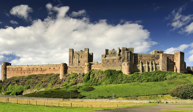 Bamburgh Castle